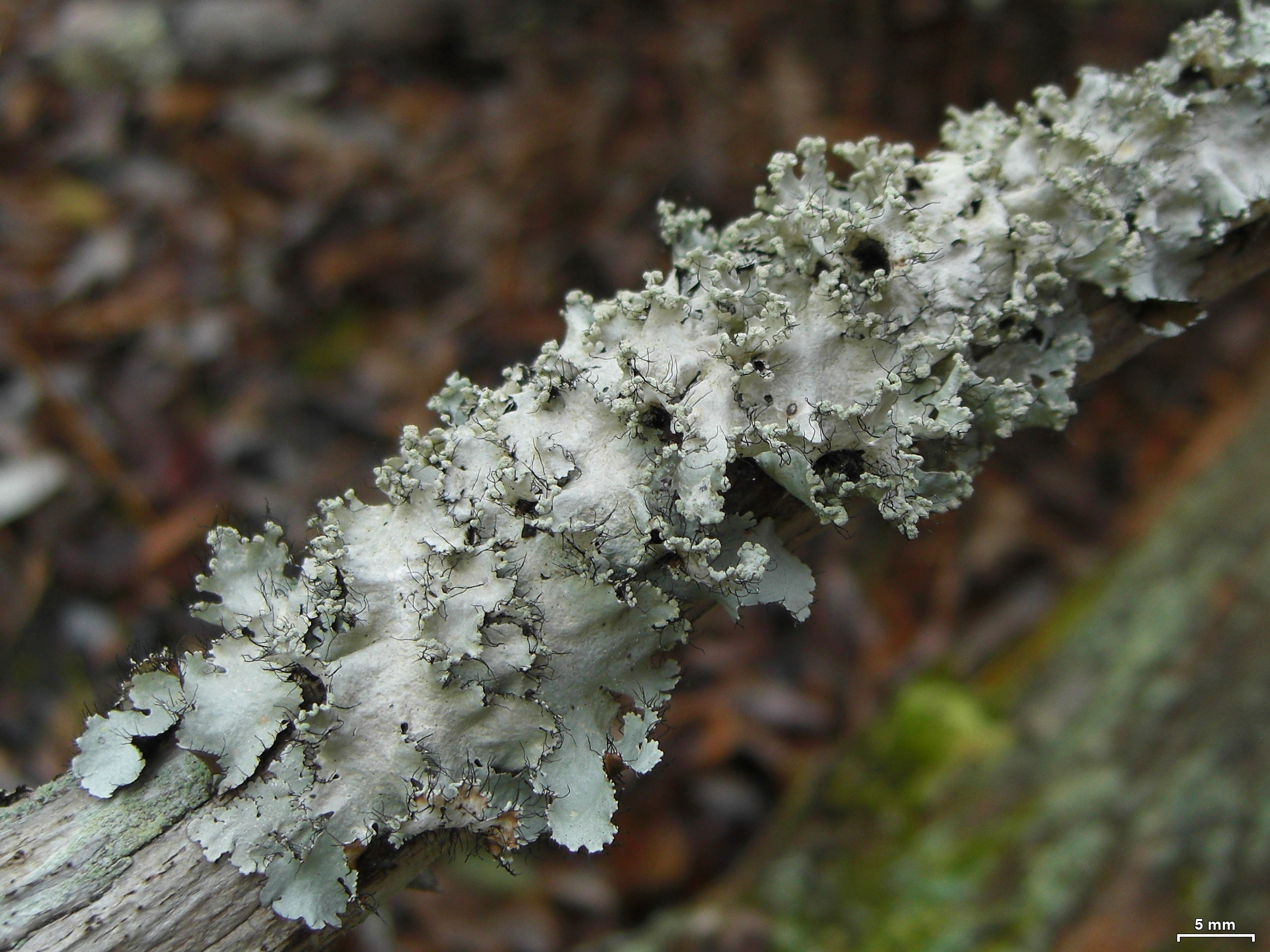 Wicomico and Worchester Counties, Delmarva, 20131128-1130